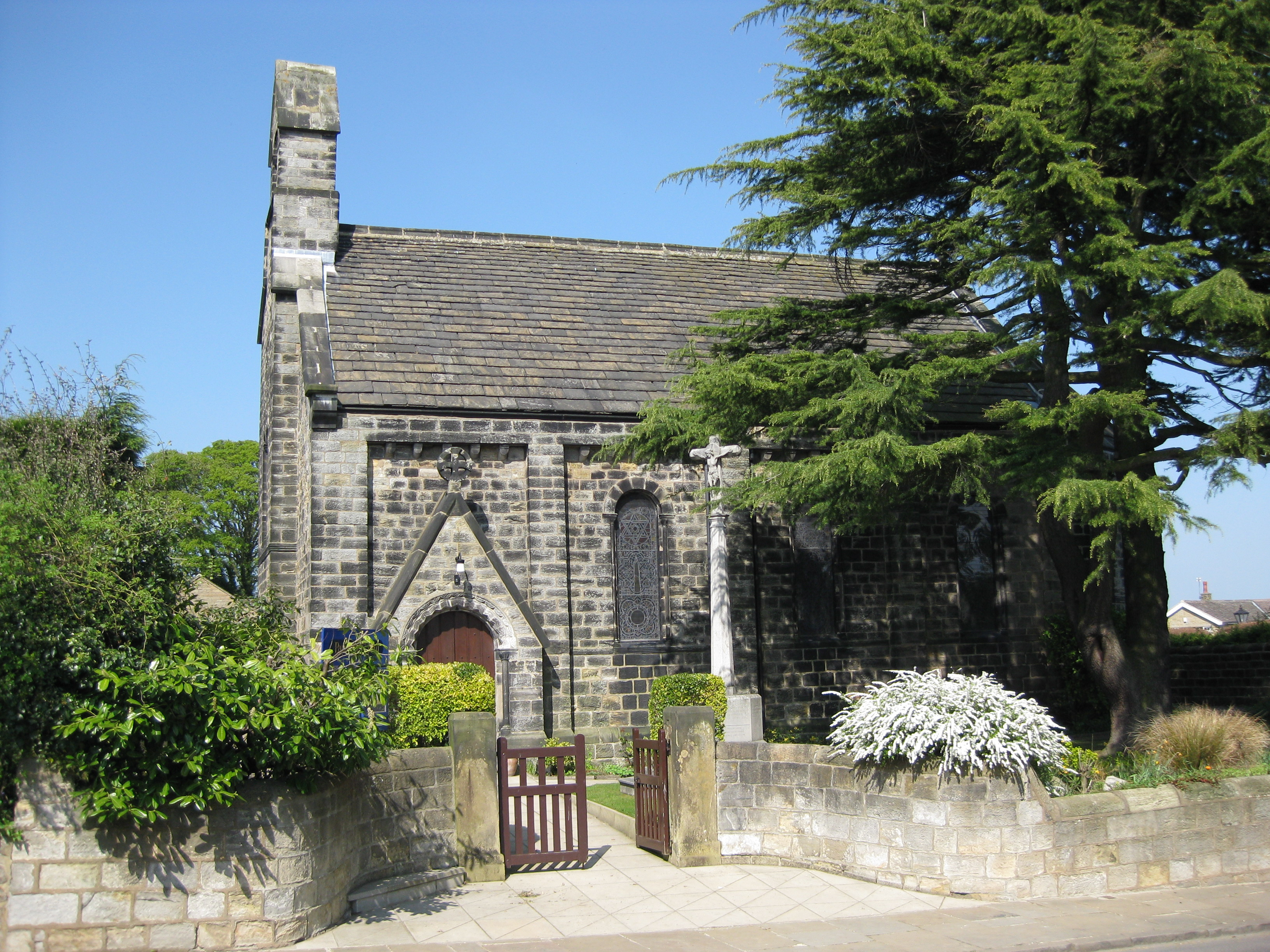 St Paul's Church, Main Street, Shadwell, Leeds LS17. OS Grid Ref. SE347387 C of E. Built 1842